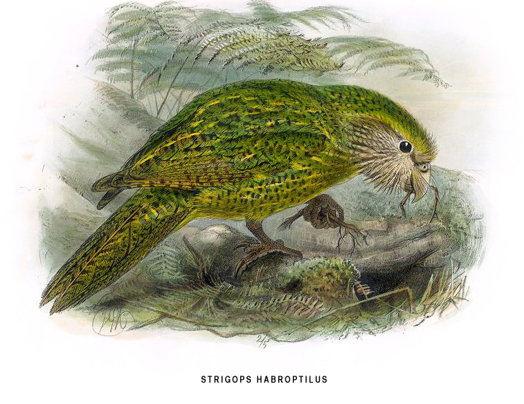 Illustration of a Kakapo.